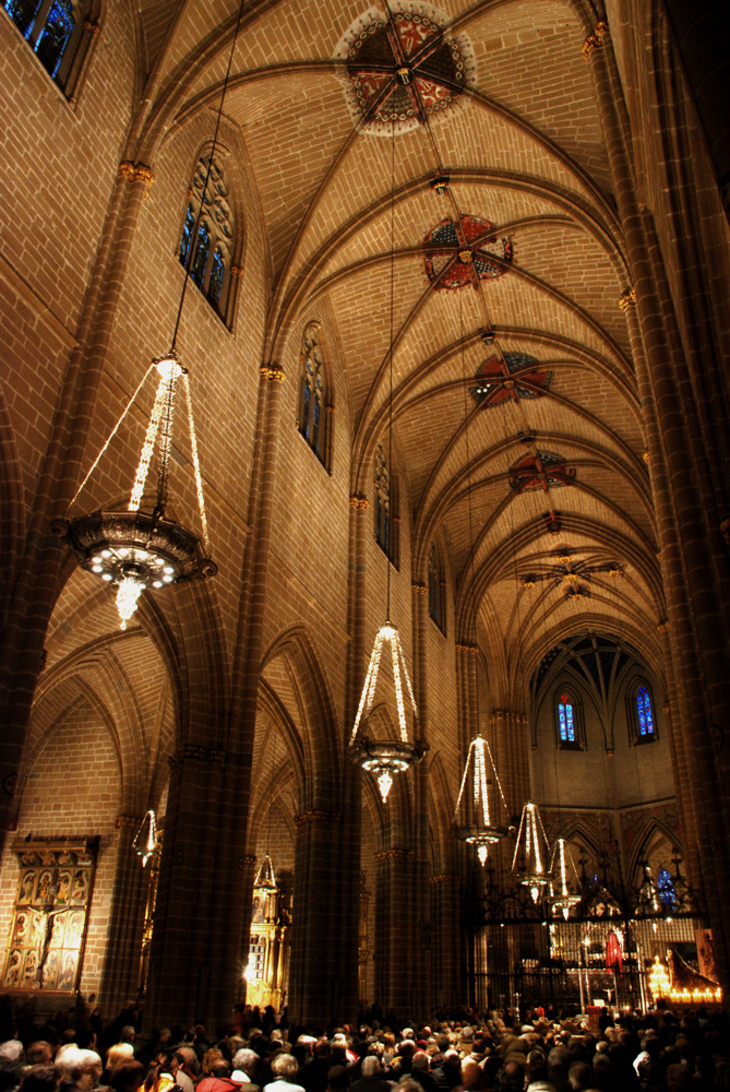 Cathedral of Pamplona, church